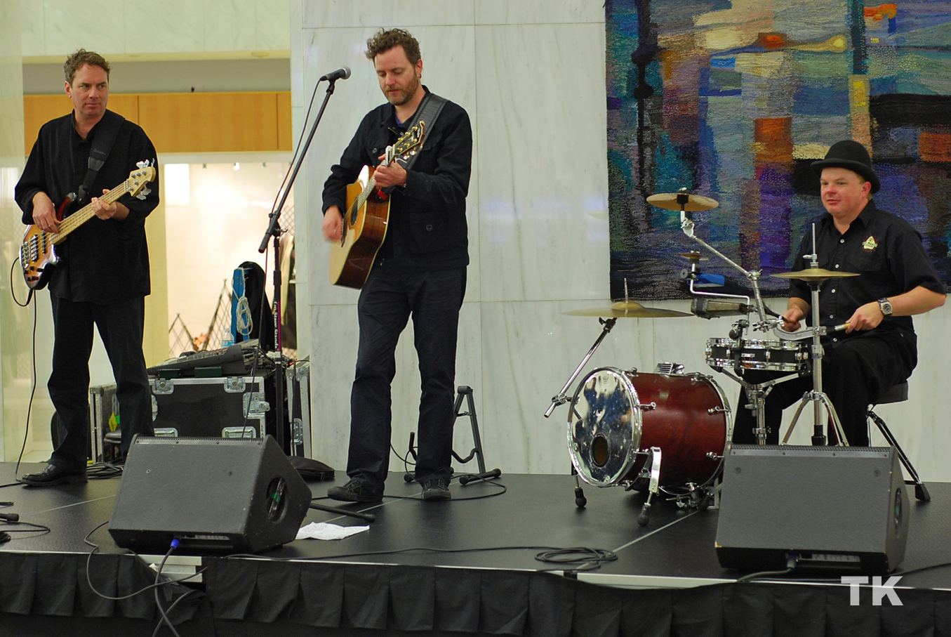 The band Kevin Hearn & Thin Buckle at War Child's Busking For Change. Left to right: Chris Gartner, Kevin Hearn, "Great" Bob Scott.